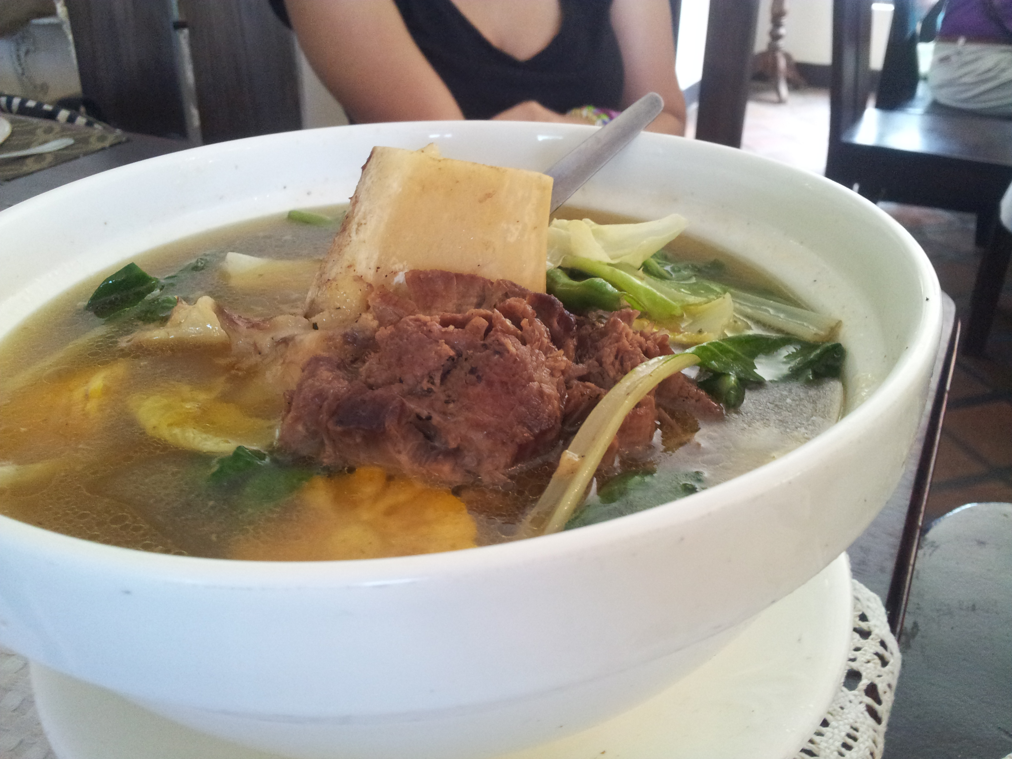 Bulalo, Pamana. (Philippines)